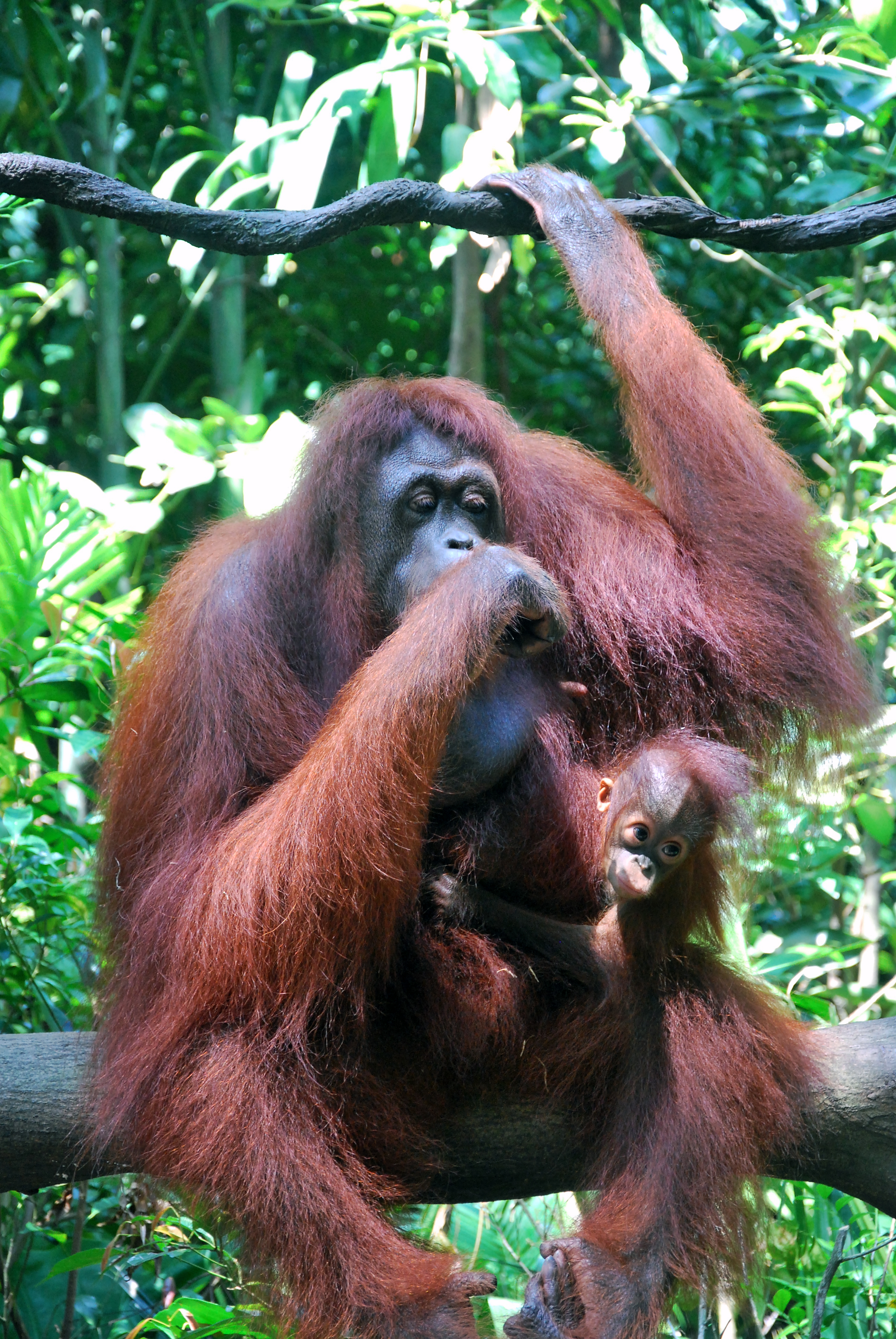 orangutan, Singapore zoo